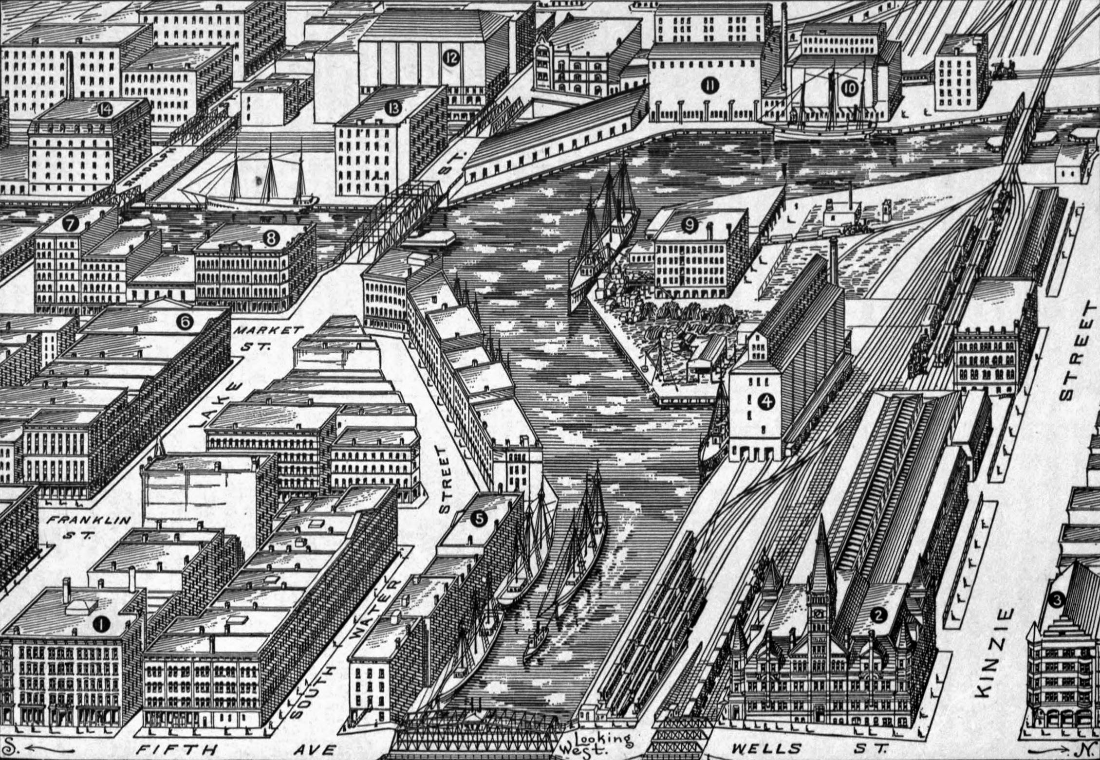 Bird's-eye view of Wolf Point in Chicago as it appeared in 1893. Key to numbered buildings: 1 = North-Western Building, 2 = Wells Street Station. 3 = Hotel Le Grand, 4 = Air Line Elevator, 5 = Lumberman's Exchange Building, 6 = Garrett Building, 7 = Lind Block, 8 = Ullman Building, 9 = Davidson & Sons' Building, 10 = Fulton Elevator, 11 = St. Paul Elevator, 12–13 = Produce Cold Storage Exchange, 14 = Star and Crescent Mills.